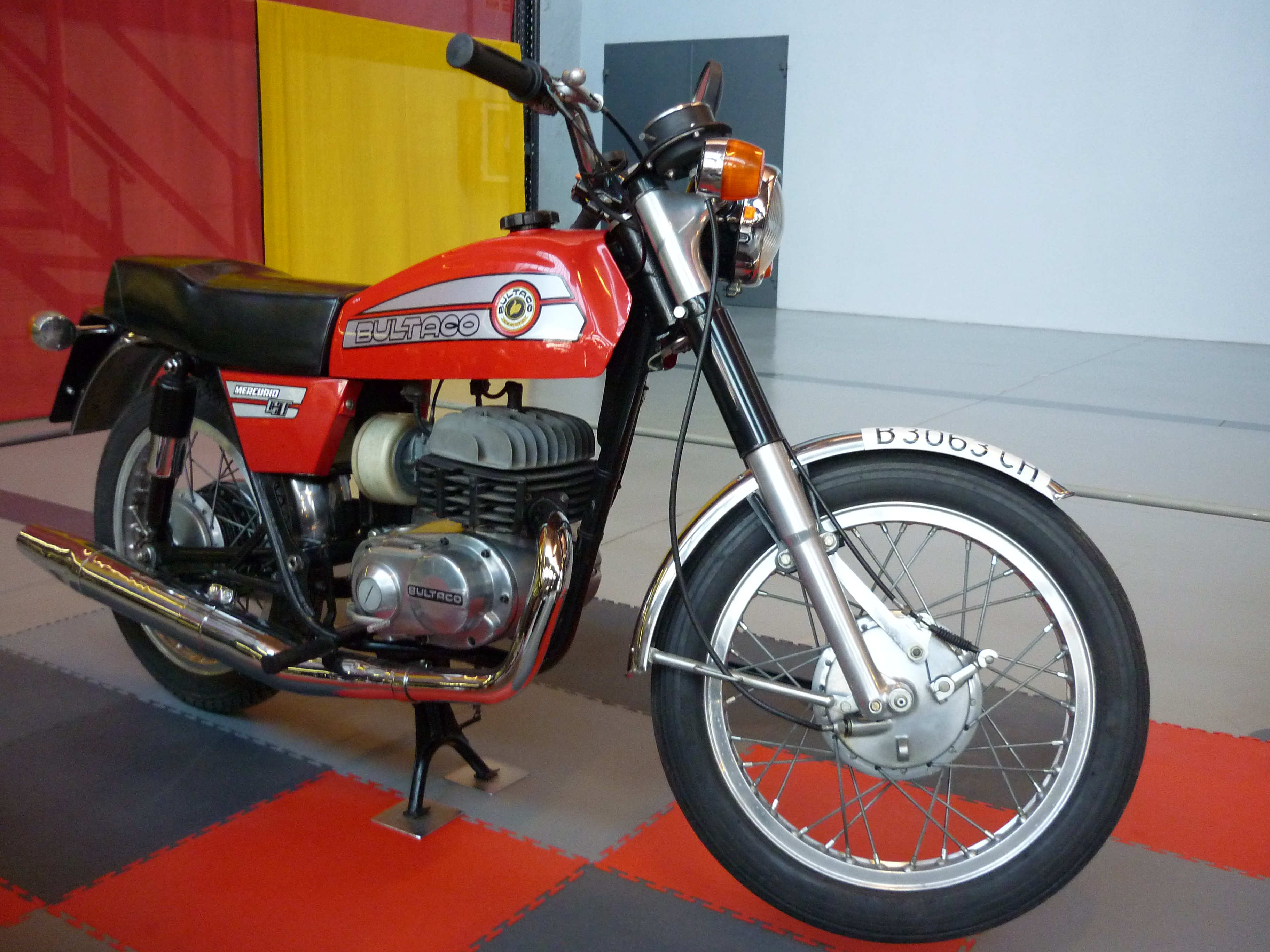 Bultaco Mercurio 175 GT (1976)